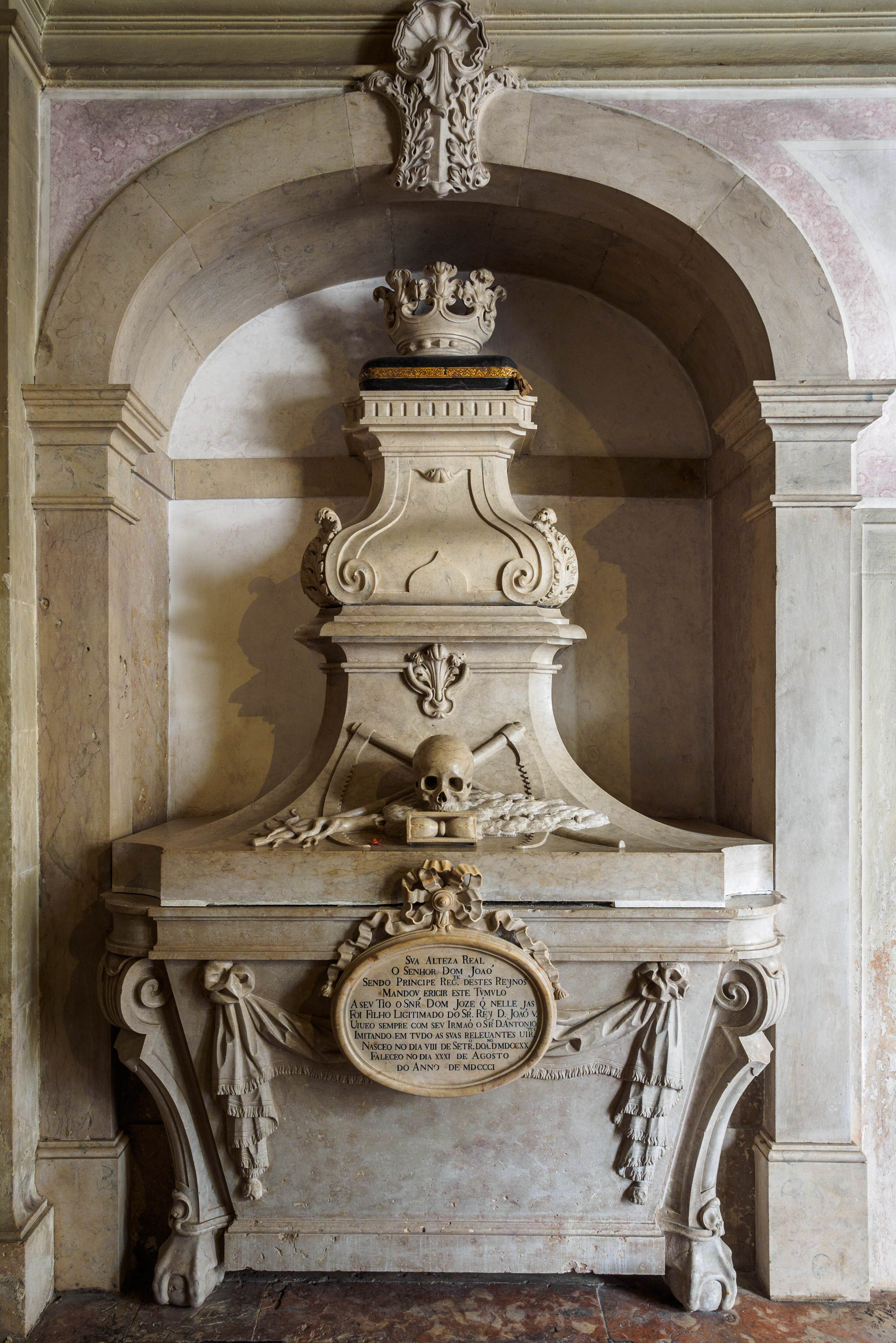 Andreas Manessinger, , Creative Commons BY-SA